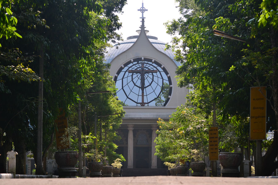 Thewatte Basilica - Sri Lanka